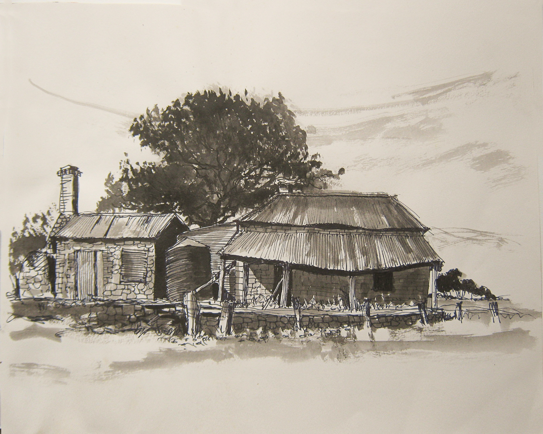 Pen and wash drawing of a cottage in South Australia by Ian Sprague 1992; photographed in a private collection at Elwood Victoria